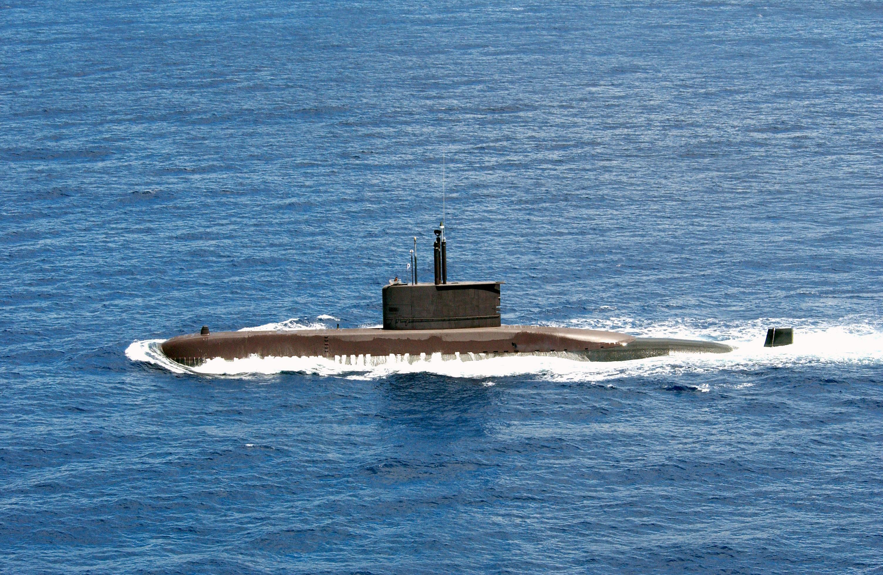 Republic of Korea (ROK) Chang Bogo (Type 209) Class (1200) Submarine CHANG BOGO (SSK 061) heads out to sea during exercise Rim of the Pacific (RIMPAC) 2004. RIMPAC is the largest international maritime exercise in the waters around the Hawaiian Islands. This years exercise includes seven participating nations: Australia, Canada, Chile, Japan, South Korea, the United Kingdom and the United States. RIMPAC enhances the tactical proficiency of participating units in a wide array of combined operations at sea, while enhancing stability in the Pacific Rim regio